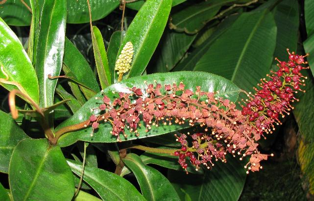 Nepenthes rafflesiana, inflorescences, Botanical Garden Heidelberg